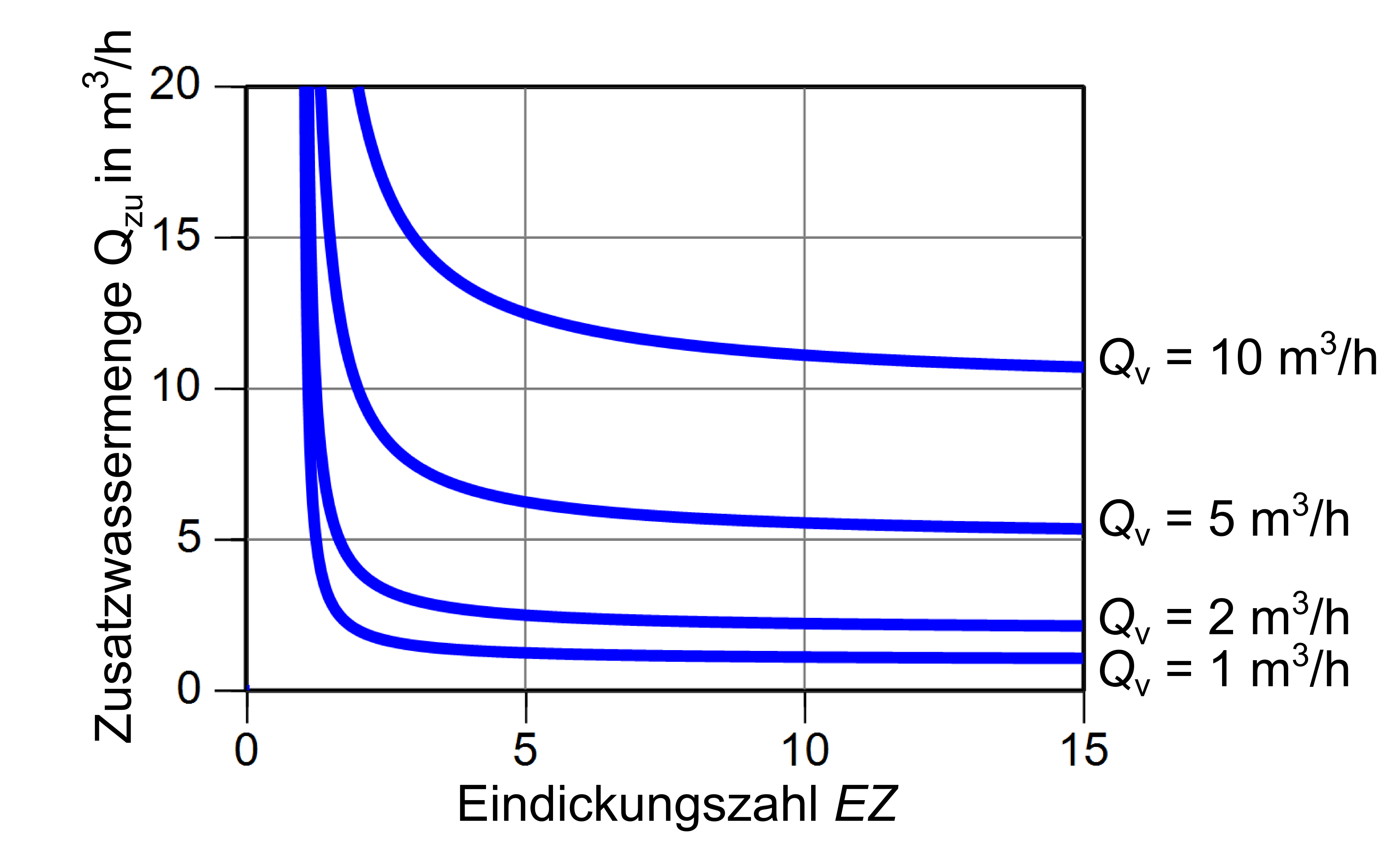 Cycles of concentration in a boiler or cooling tower. Water amount to add (Qzu) as function of salt concentration ratio of process water and added water (EZ). Different curves for different evaporation rates (Qv).